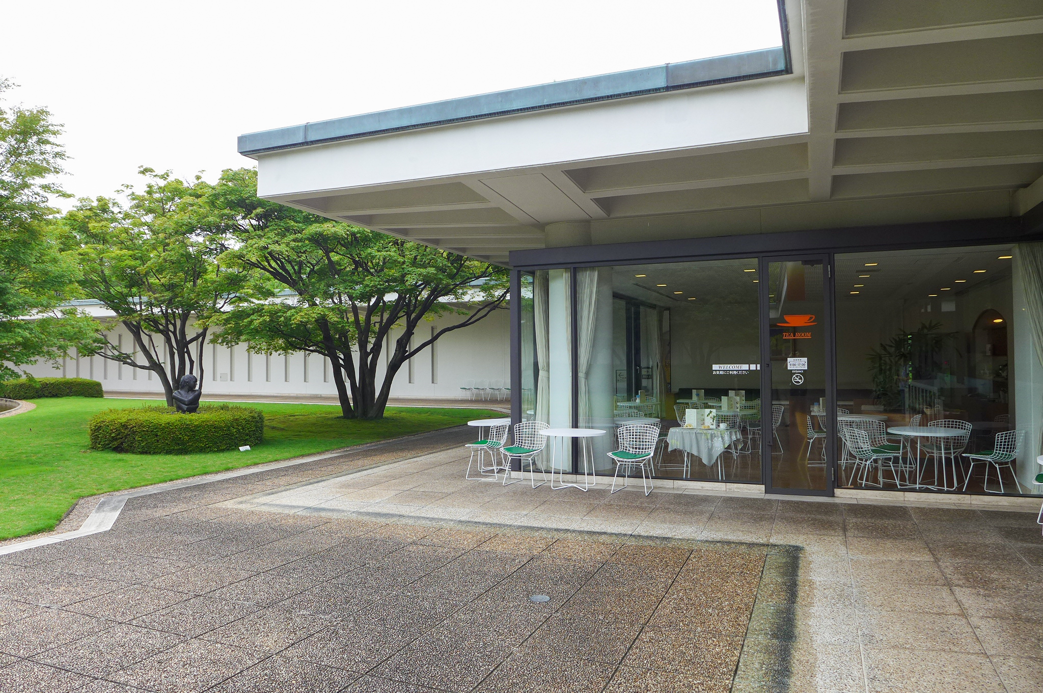 Hiroshima Museum of Art